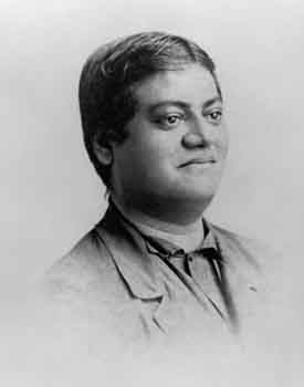 Swami Vivekananda July 1895 Thousand Island Park